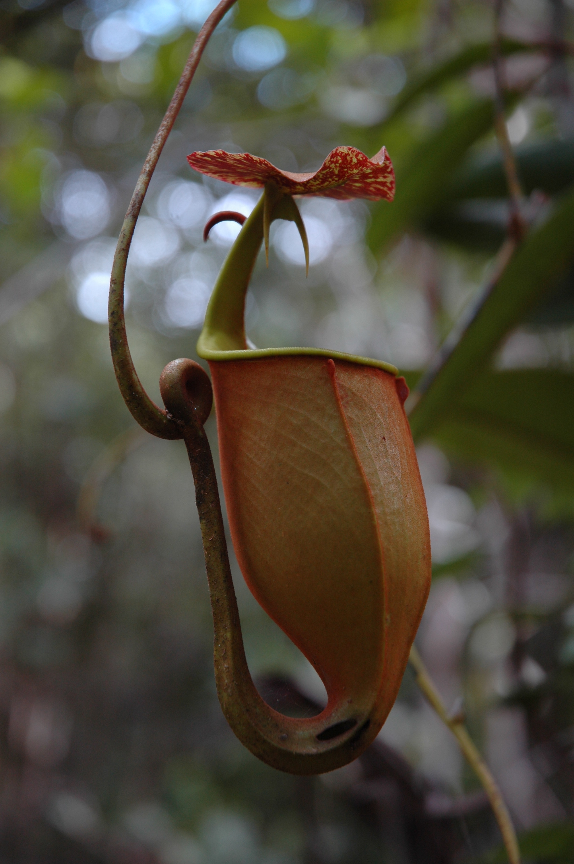 Nepenthes bicalcarata Serian road side By Jeremiah Harris